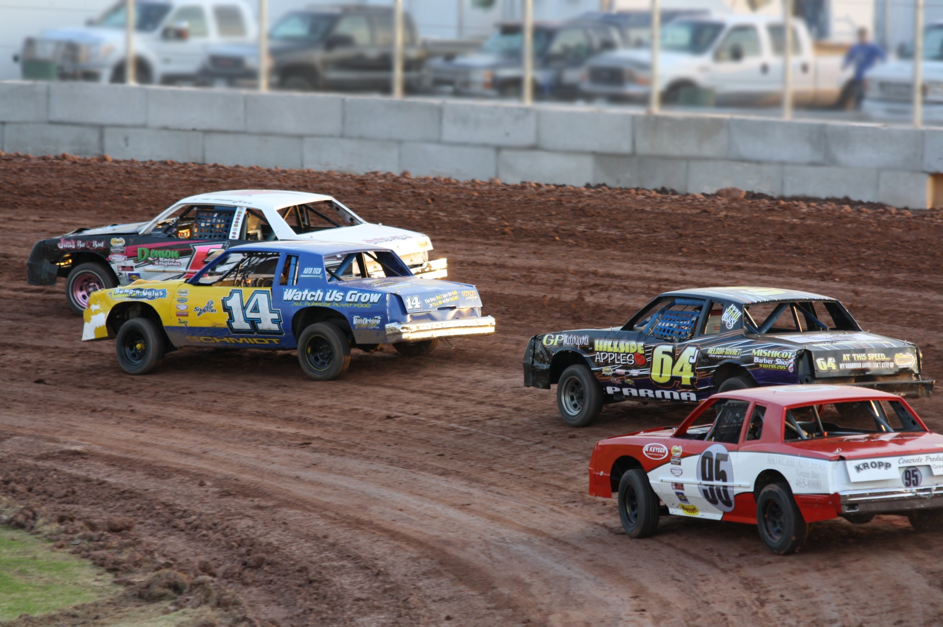 IMCA Hobby Stocks racing at Luxemburg Speedway (Wisconsin).